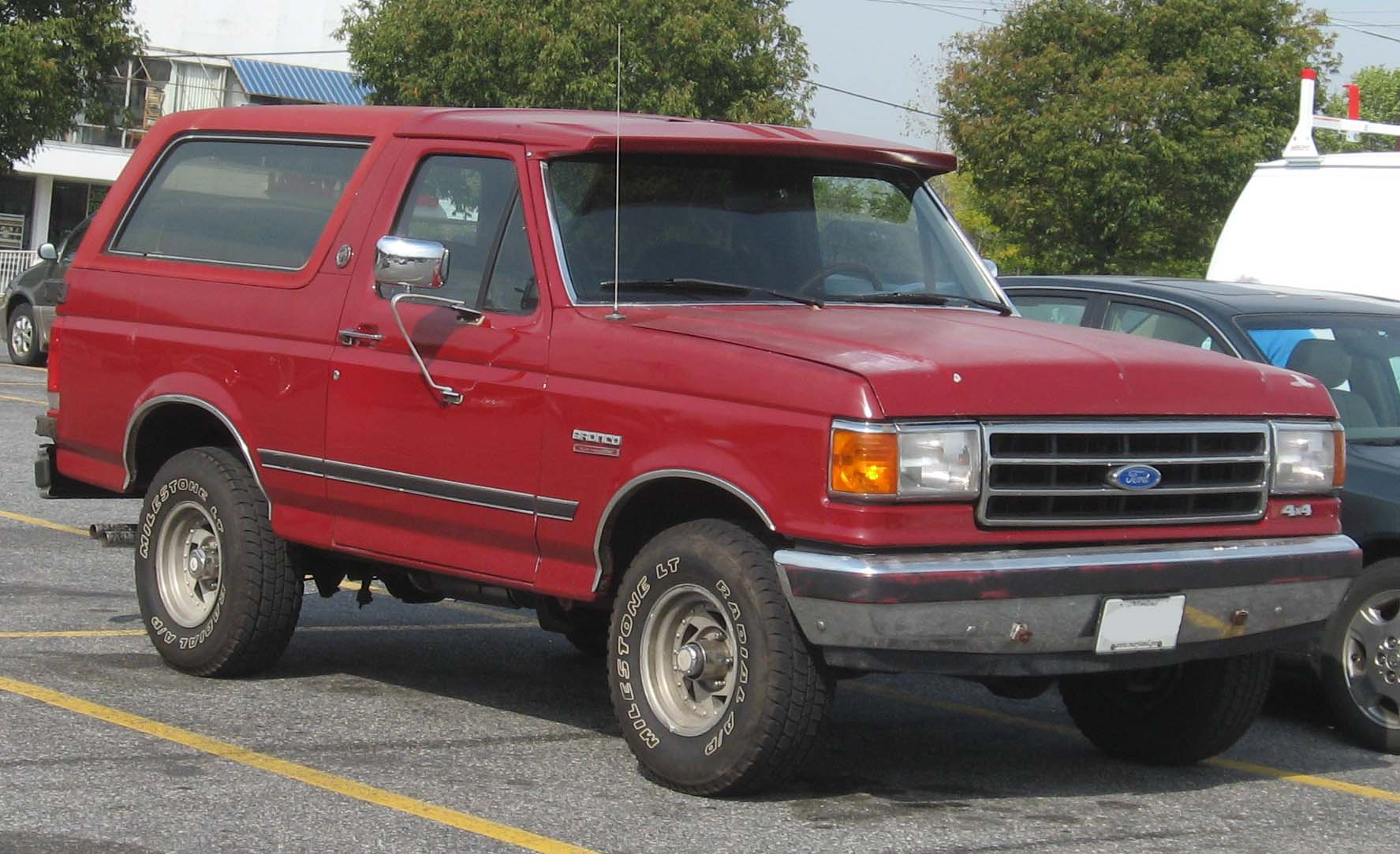 1987-1991 Ford Bronco photographed in Greenbelt, Maryland, USA.